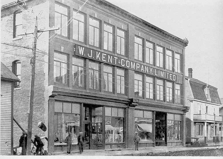 Kent's Department Store in Bathurst, New Brunswick. Circa 1920.